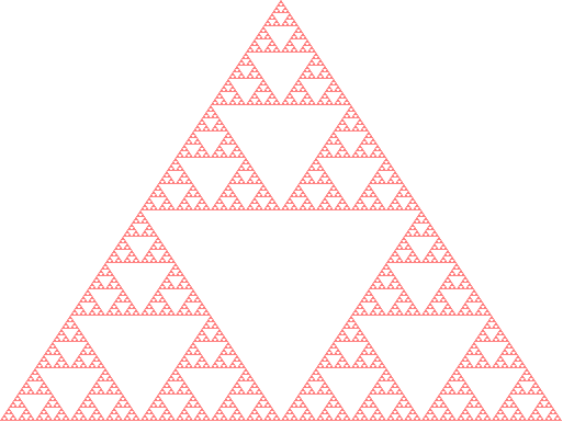 Sierpinski triangle drawn by seven-line PLT Racket program